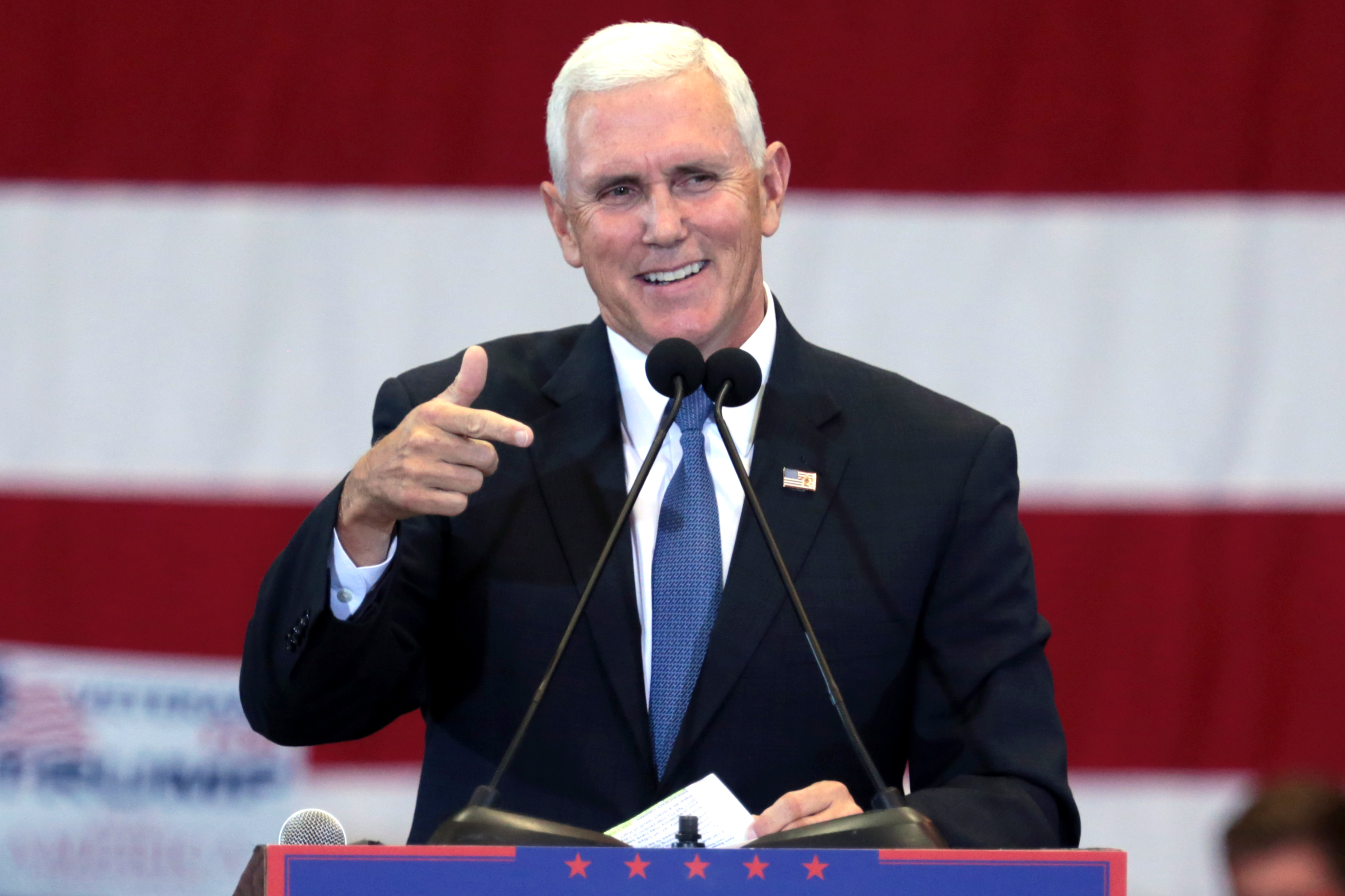 Governor Mike Pence speaking with supporters at a campaign rally for Donald Trump at the Phoenix Convention Center in Phoenix, Arizona.